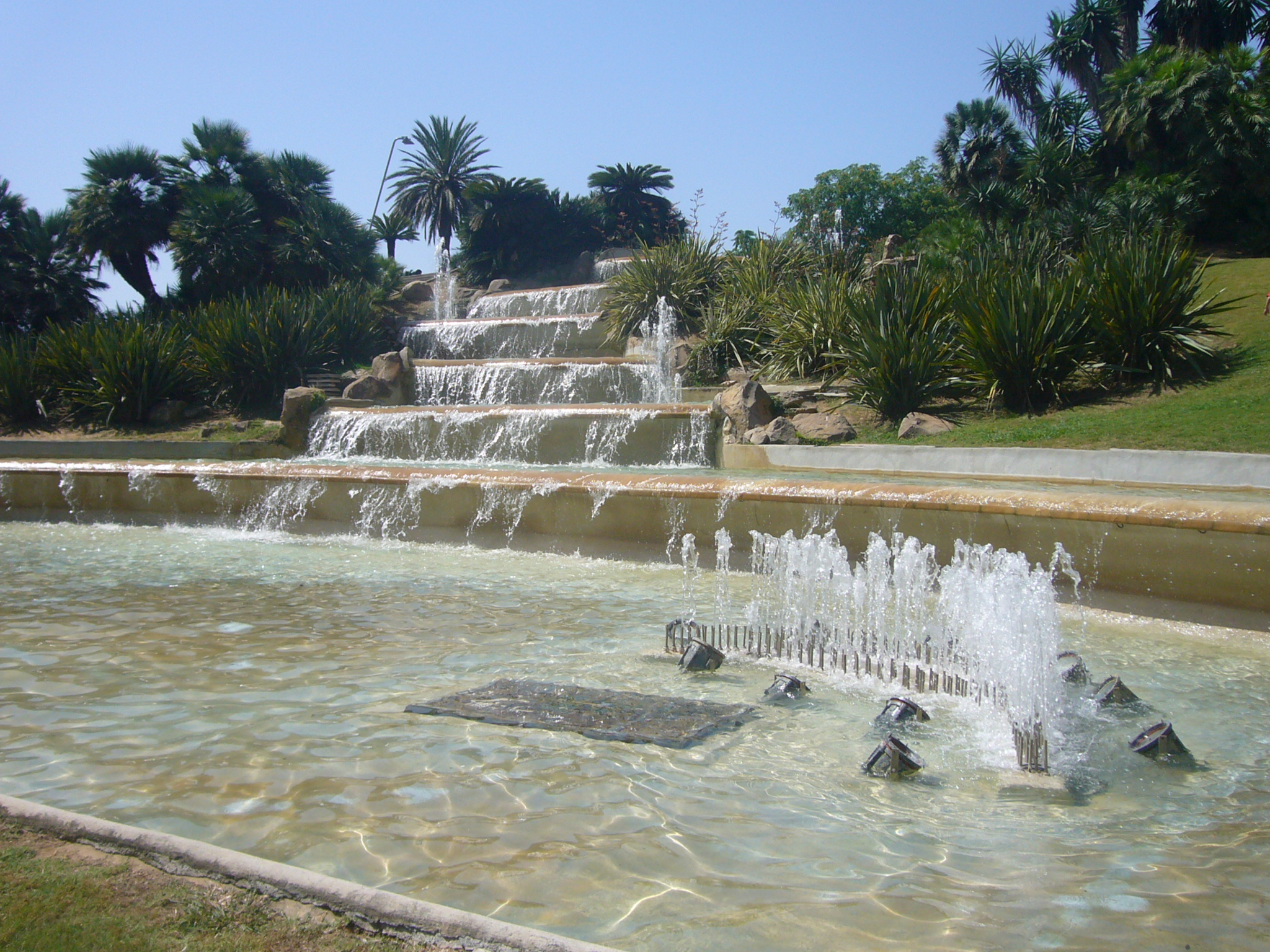 Gardens "Mirador de l'Alcalde" in Montjuïc, Barcelona.